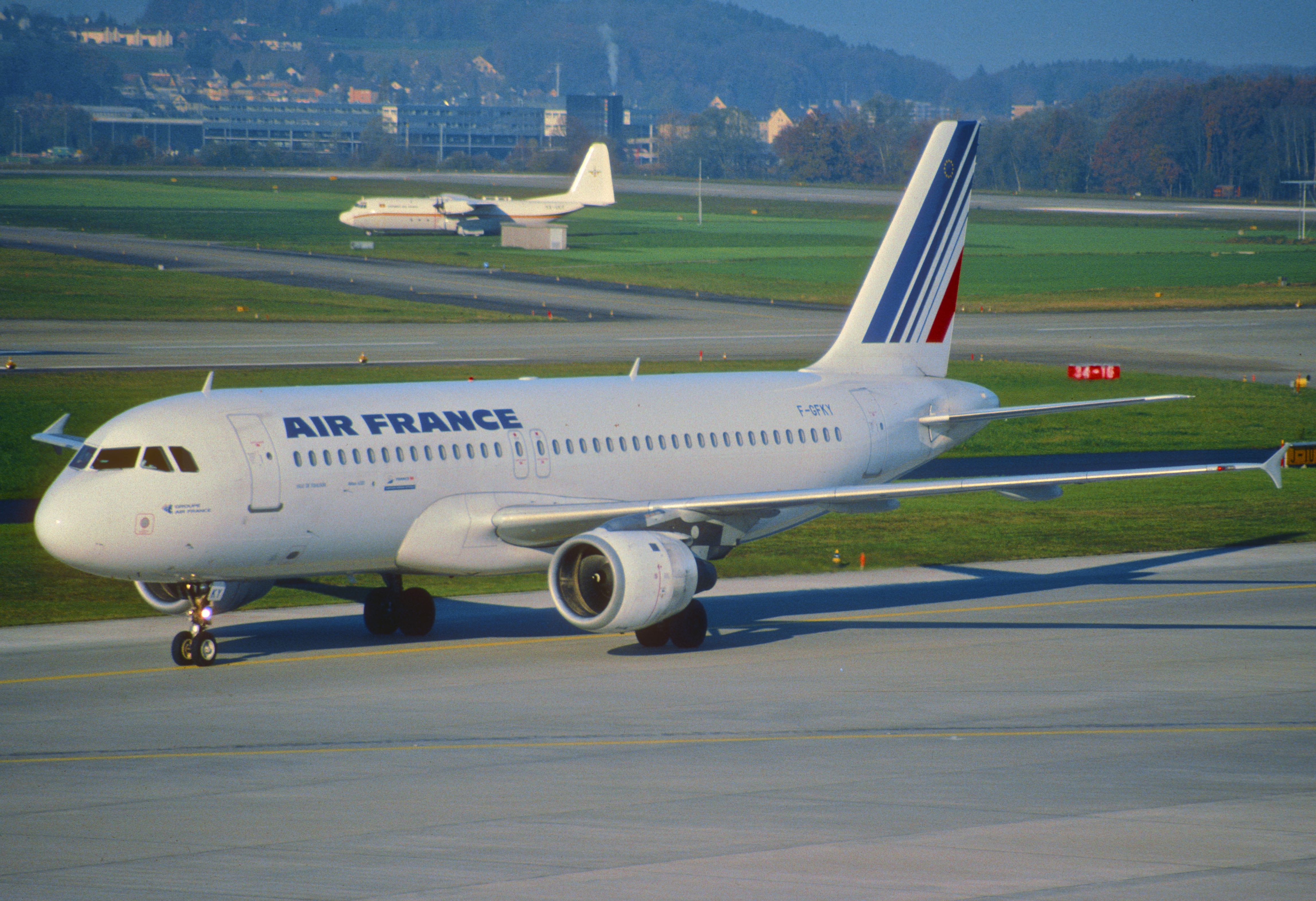 43ad - Air France Airbus A320-211; F-GFKY@ZRH;07.11.1998